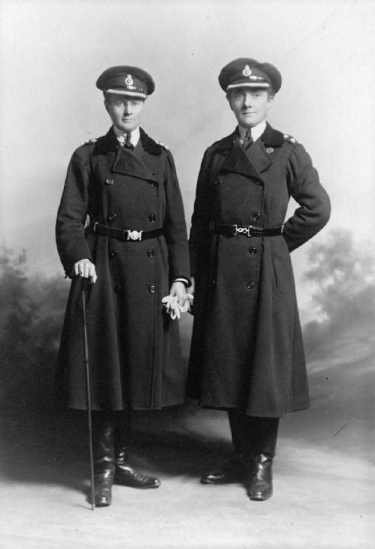 Women at work during the First World War Commandant Margaret Damer Dawson OBE and Subcommandant Mary Allen OBE of the Women's Police Service (formerly the Women's Police Volunteers and later the Women's Auxiliary Service). Both were awarded OBEs by King George V in February 1918.